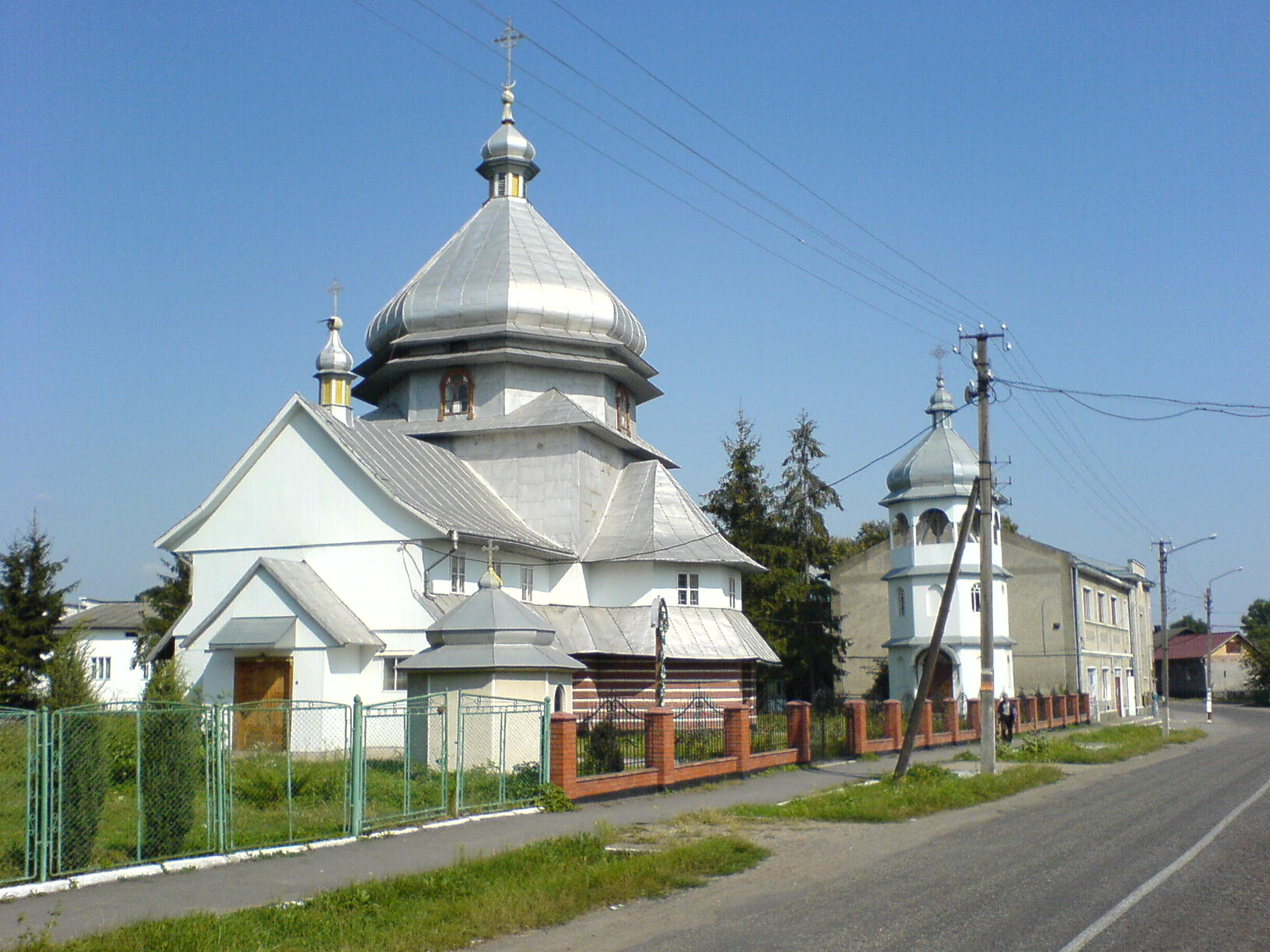 Greek Catholic Church in Jezupol